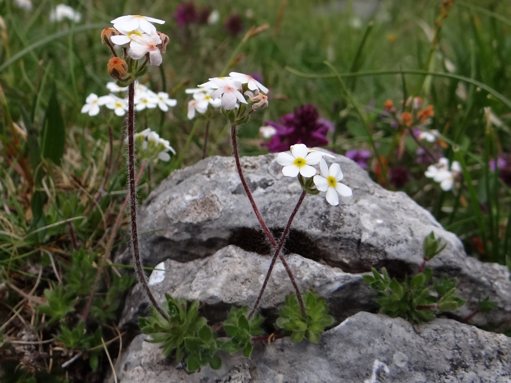 Androsace chamaejasme (habitat:West Tatra Mountains, Ciemniak)